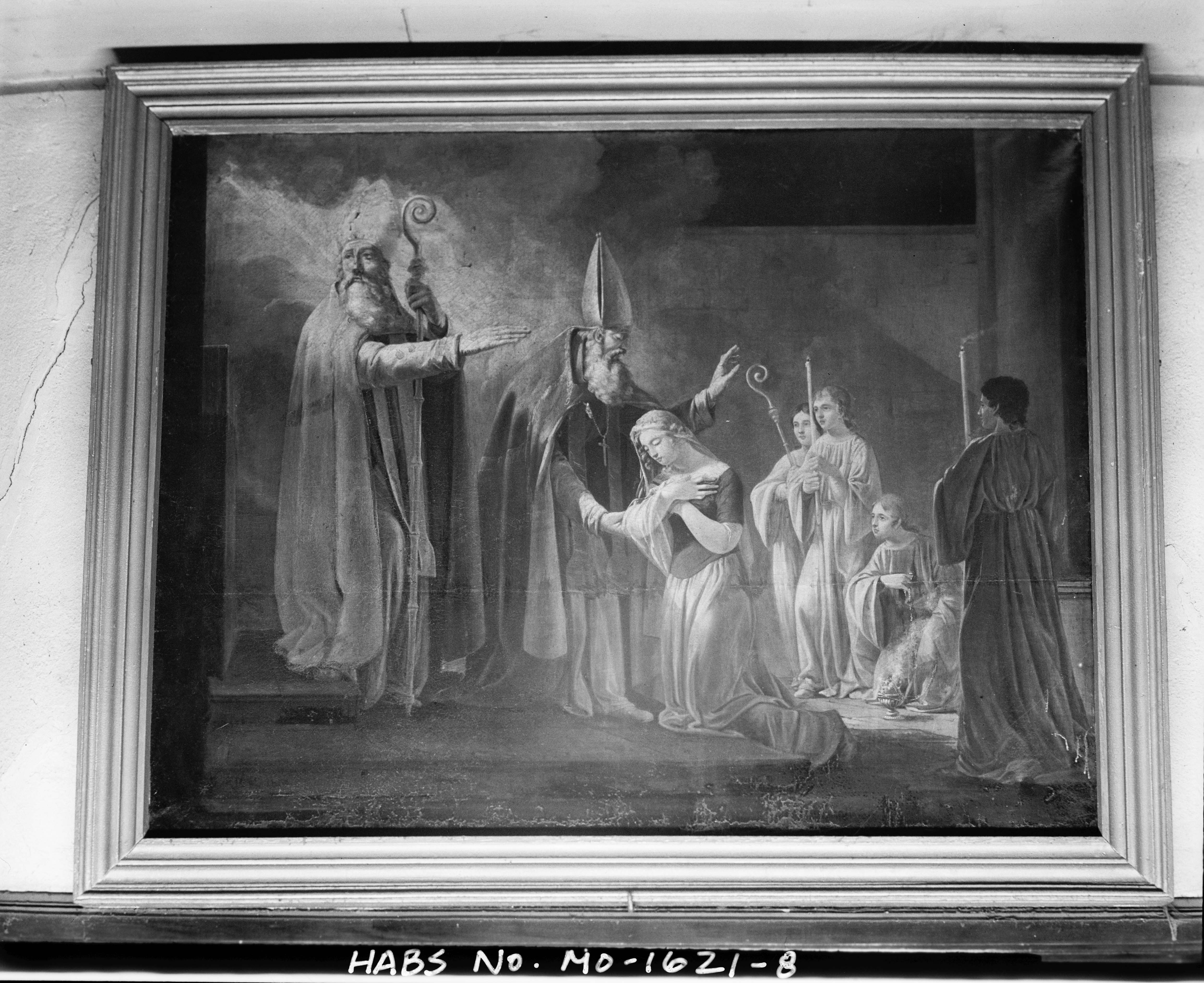 This is a photograph is of the painting, “The Consecration of Ste. Genevieve." by M. Basterot. It is reputed to be the first original historical picture painted in the Missouri region. The photograph was taken in the Church of Ste. Geneviève, Missouri